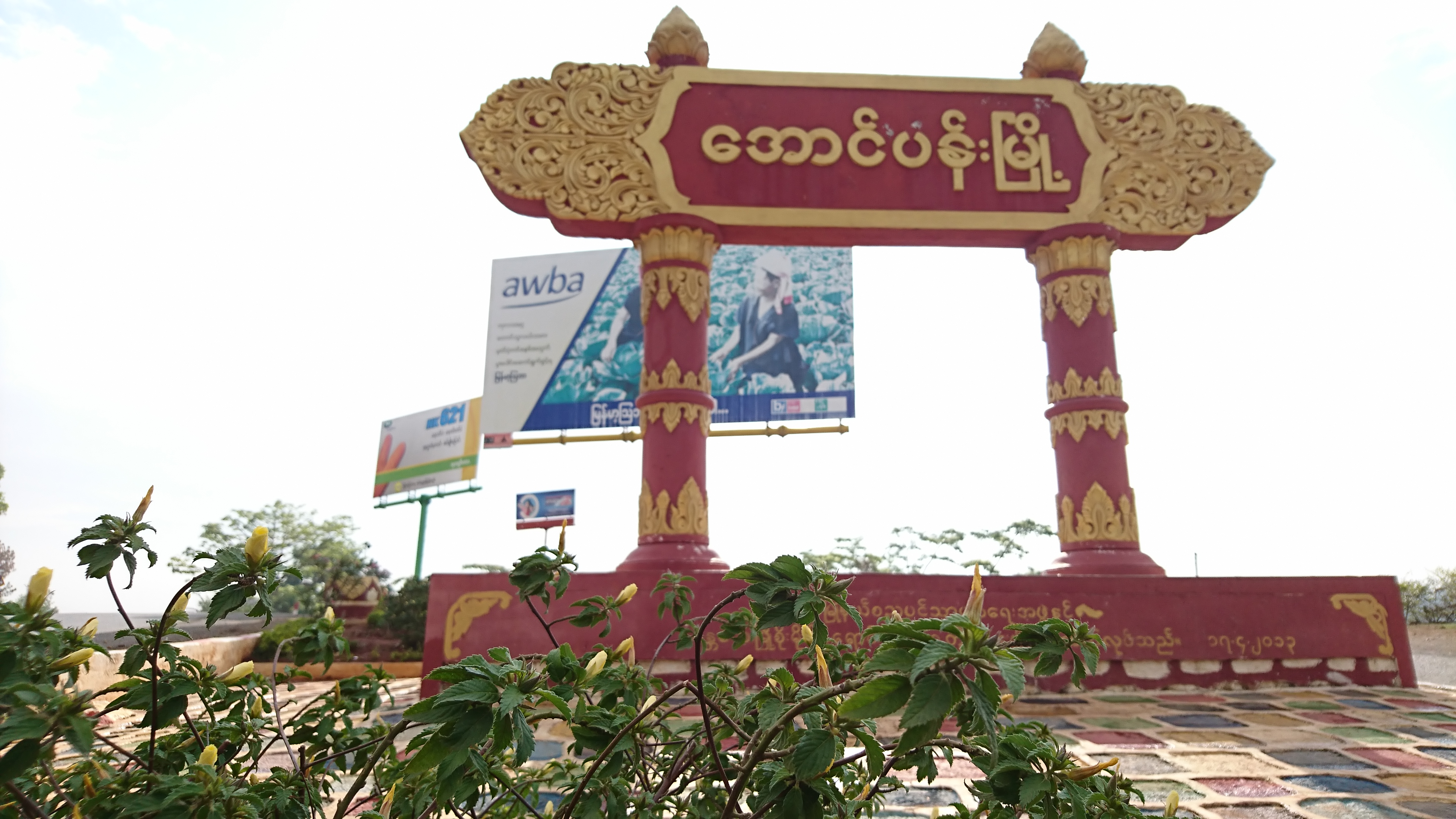 Signboard of Aungban town in the Shan State of eastern Myanmar. မြန်မာဘာသာ: မြန်မာနိုင်ငံအရှေ့ပိုင်း ရှမ်းပြည်နယ်၊ အောင်ပန်းမြို့ဝင်ဆိုင်းဘုတ်